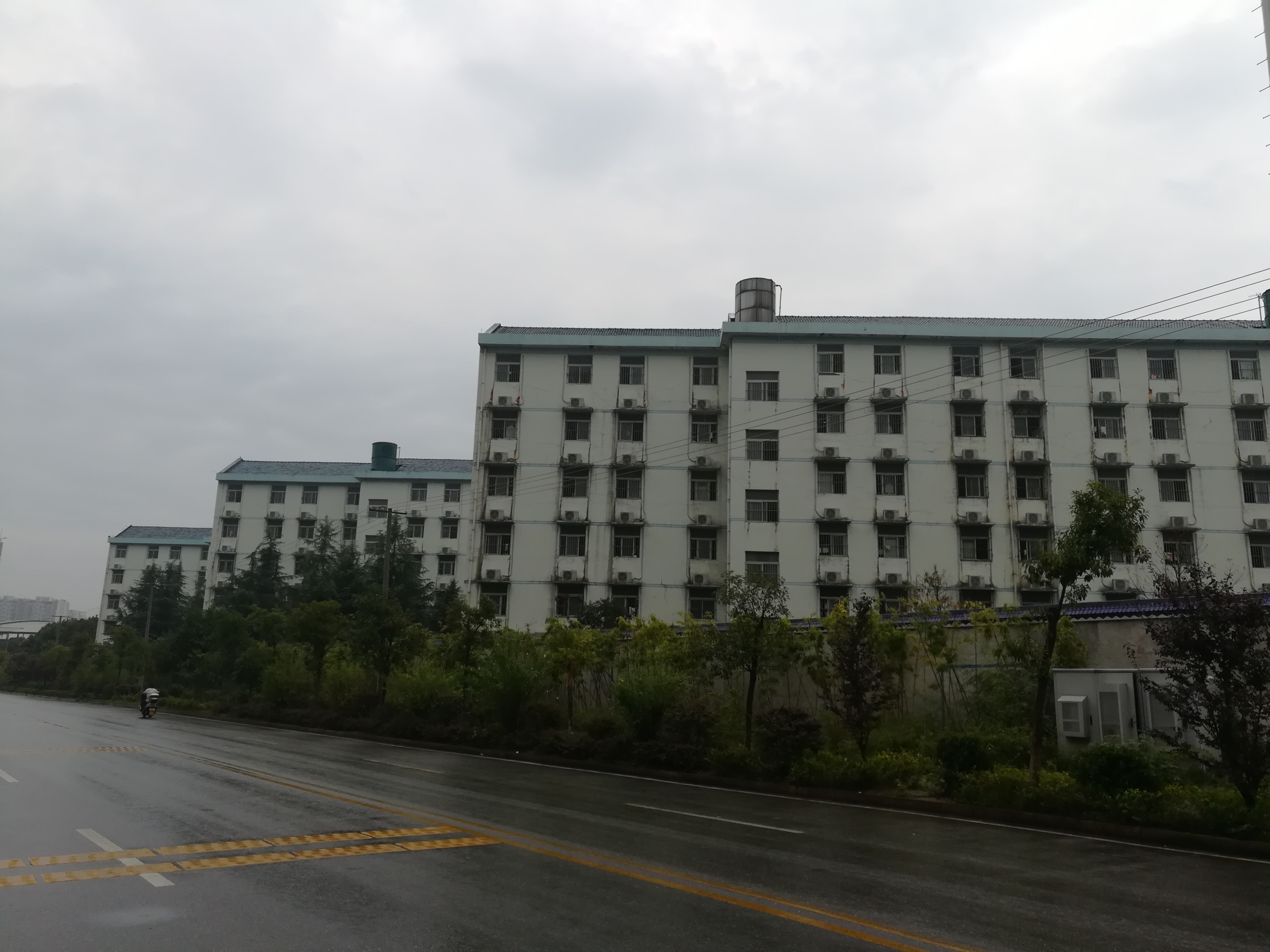 The No. 13 High School of Ningxiang, in downtown Ningxiang, Hunan, China. 中文（中国大陆）: 中国湖南省宁乡市市内的宁乡十三中。